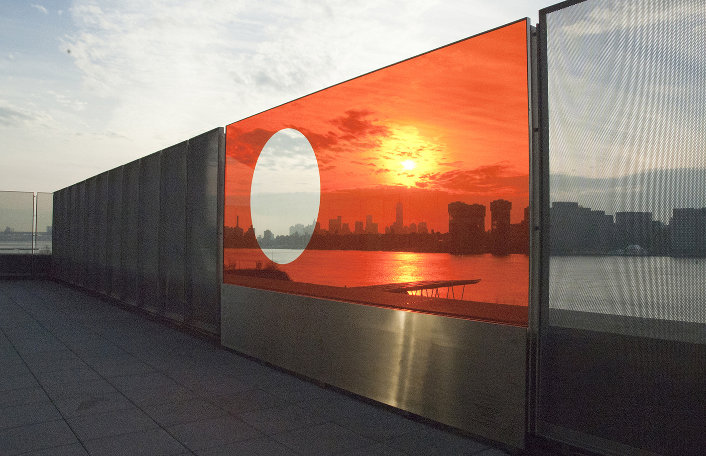 Natasha Johns-Messenger, Alterview 2013, Percent for Art, New York City Department of Cultural Affairs Commission, Hunters Point, New York